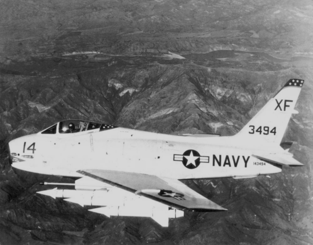 A U.S. Navy North American FJ-4B Fury (BuNo 143494) of Air Development Squadron 4 (VX-4) "Evaluators" armed with six ASM-N-7 Bullpup air-to-ground missiles in the late 1950s.